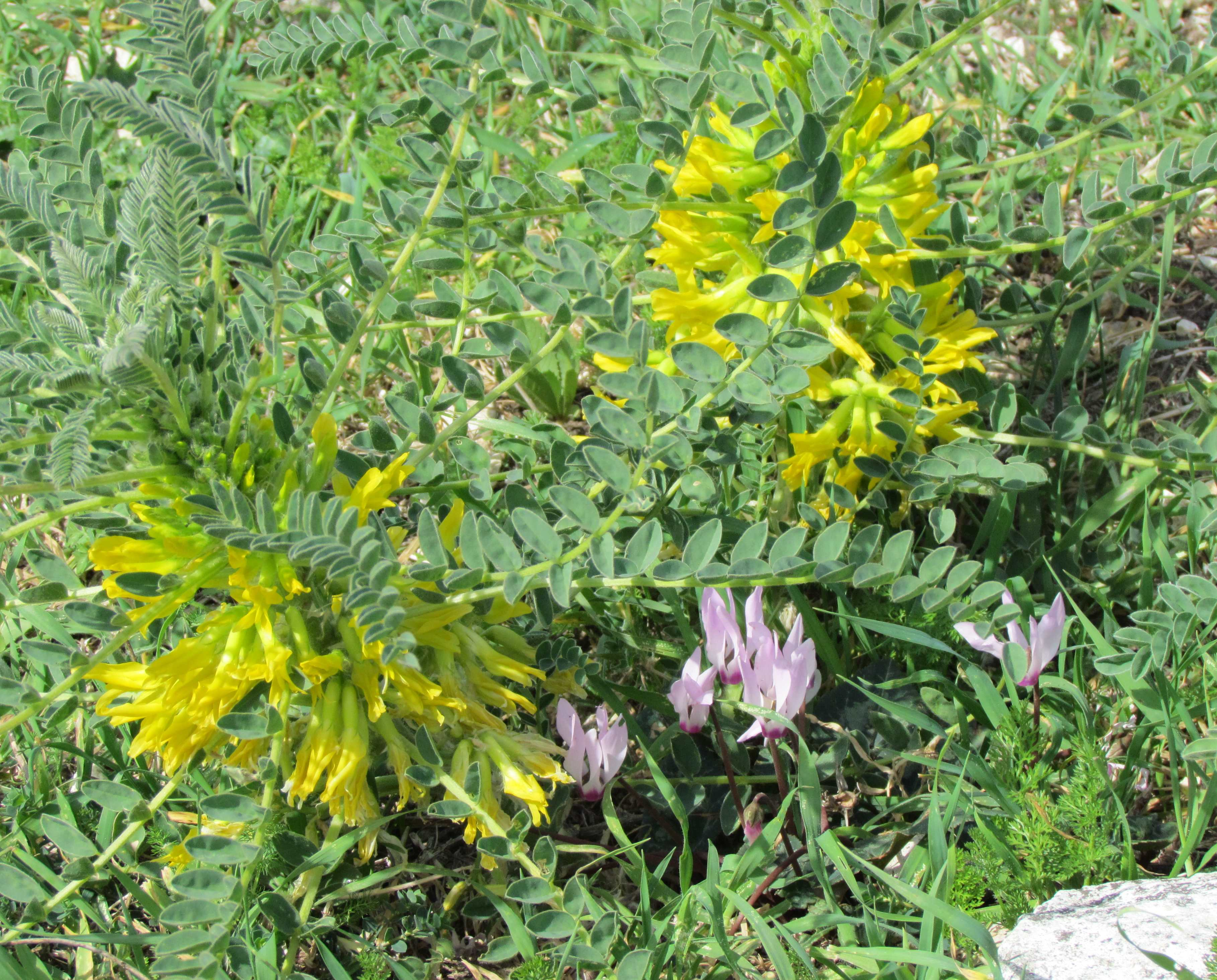 קדד גדול פרי ורקפות, צולם באזור רמות מנשה ב- 21 בפברואר 2014